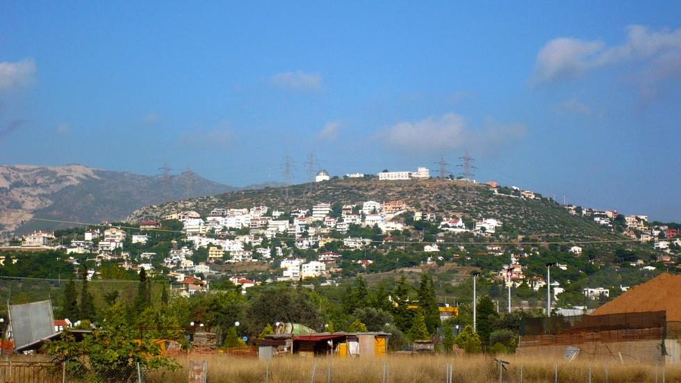 The picture depicts the Koufos Hill as viewd from Patima, Halandri.